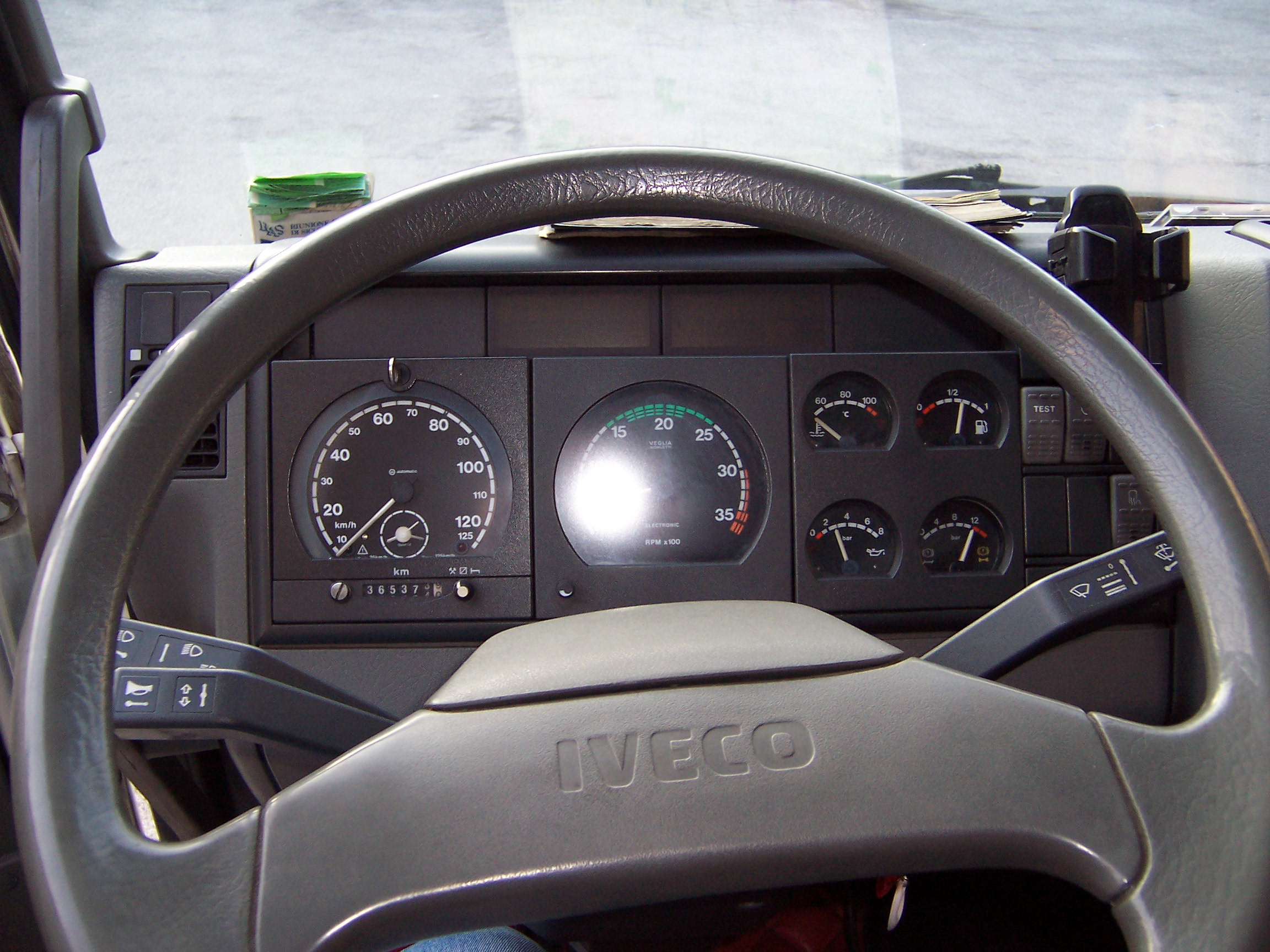 Iveco truck interior